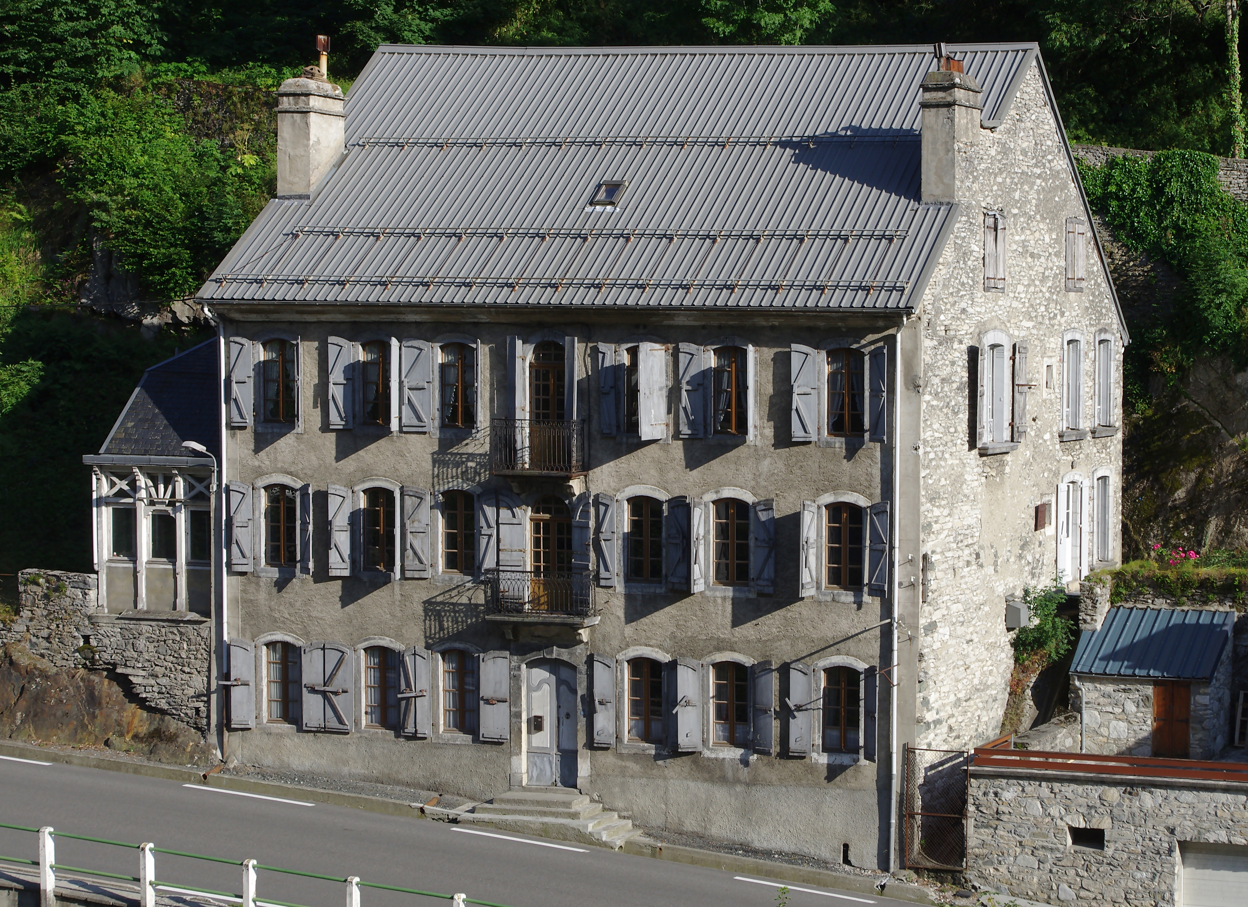 Traditional Pyrenean house, Barèges, Hautes-Pyrénées, France.